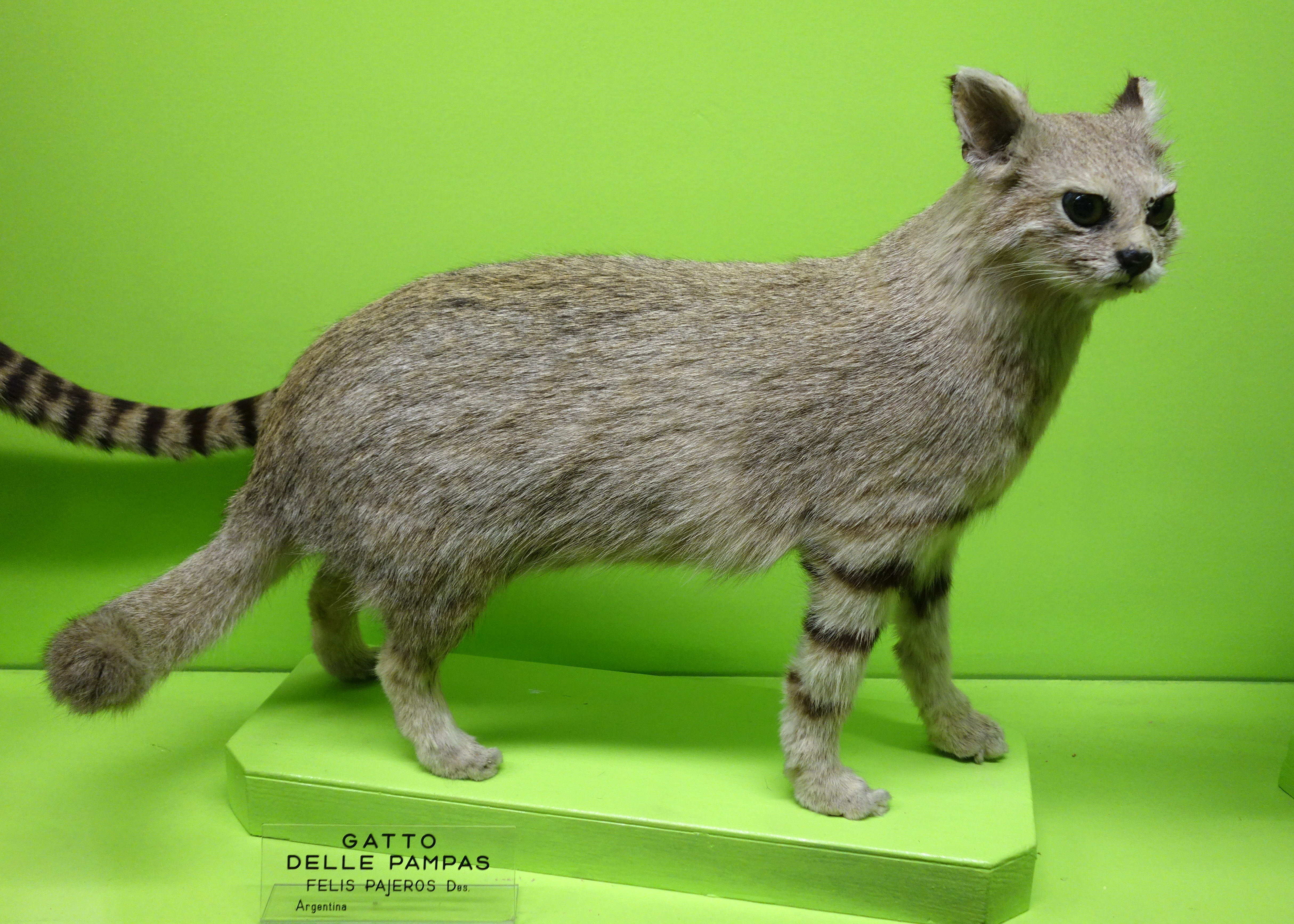 Exhibit in the Museo Civico di Storia Naturale di Genova, Via Brigata Liguria, 9, 16121, Genoa, Italy.